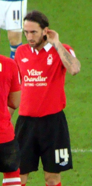 Jonathan Greening playing for Nottingham Forest against Cardiff City at the Cardiff City Stadium on 26 November 2011